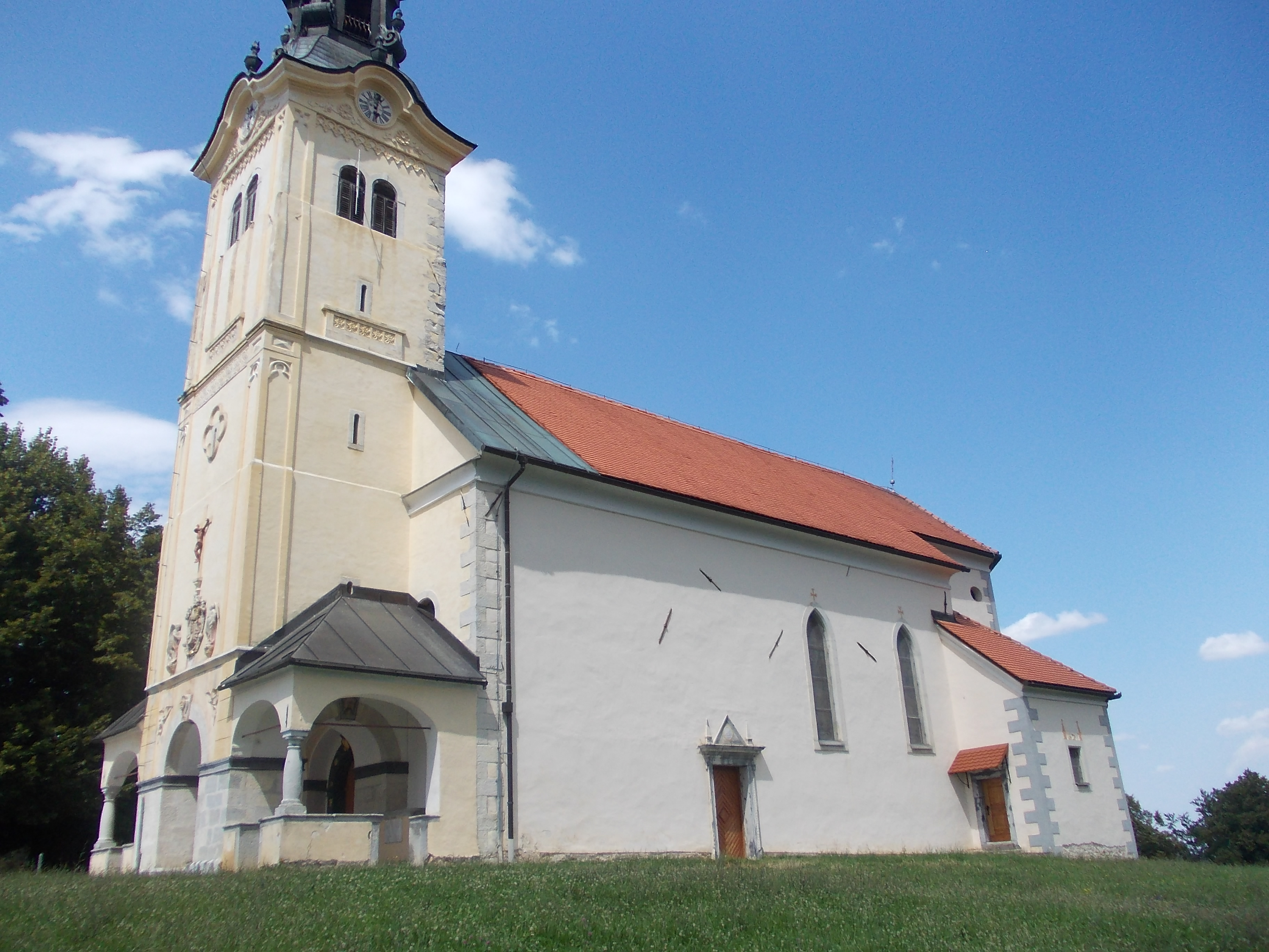 Church of the Nativity of the Virgin Mary, Trška Gora